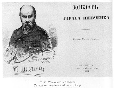 The title page of "Kobzar" by T. Shevchenko (1860)